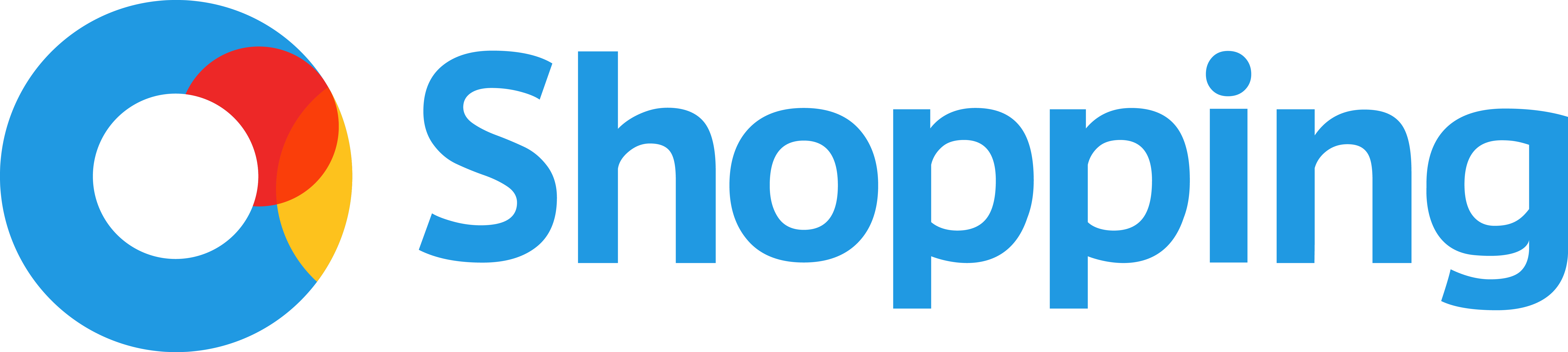 The official logo for O Shopping Philippines, used since October 2015.